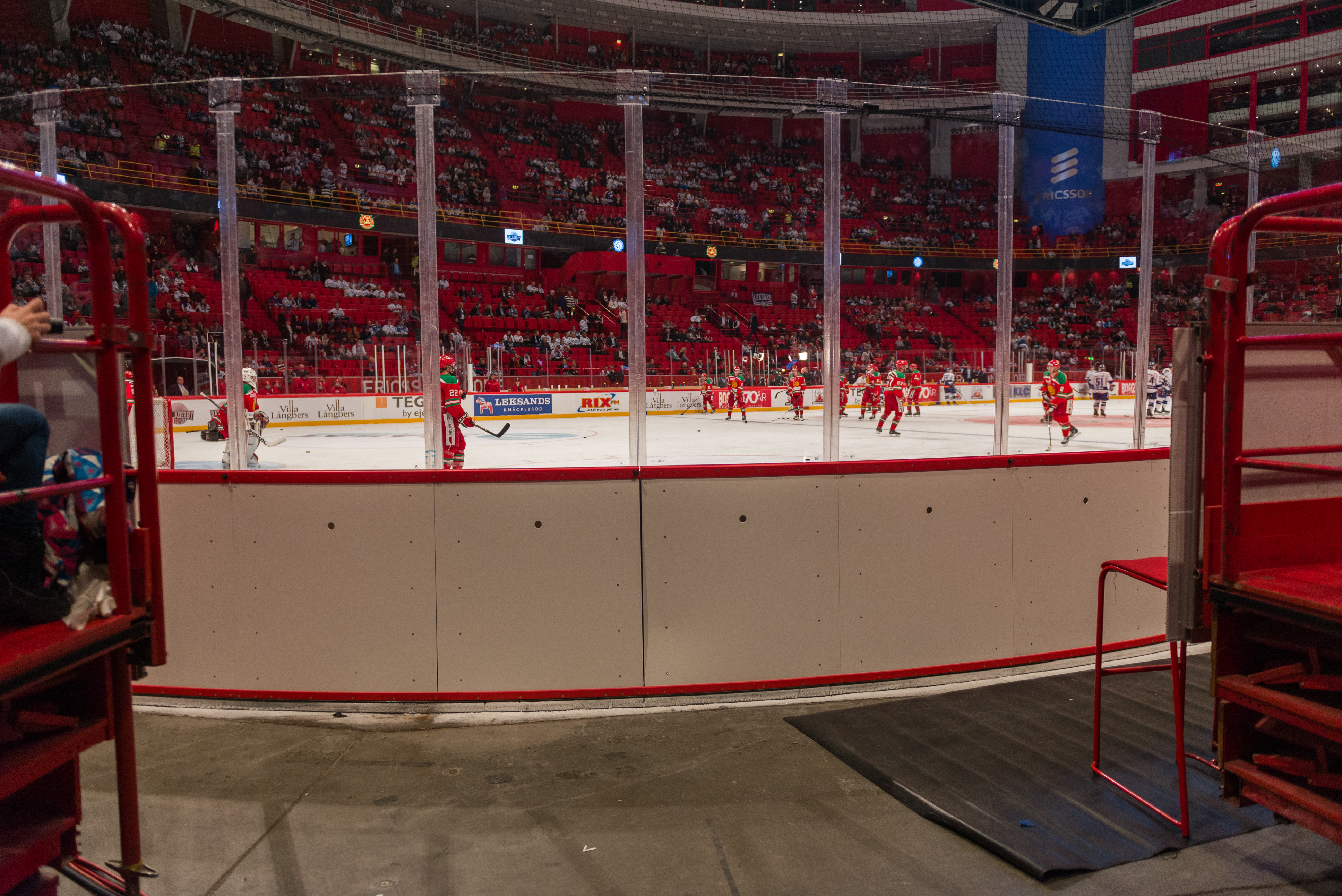 Stockholm Globe arena. Match between Leksand and Mora in Hockeyallsvenskan (Swedish second league), Stockholm 2013-01-05.